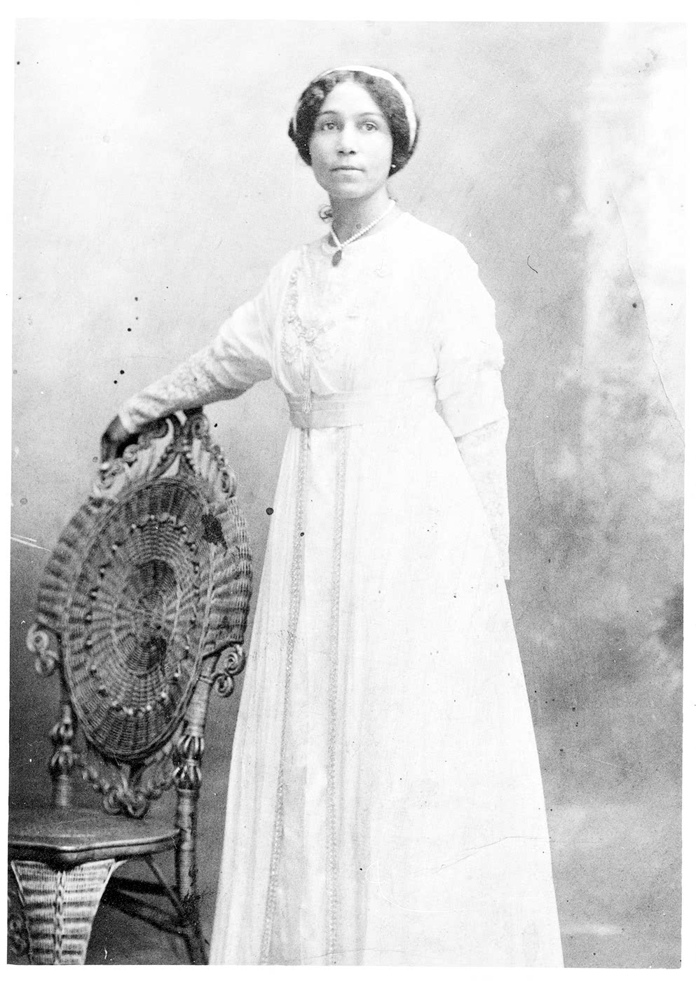 Photographic portrait of Virginia African-American writer Anne B. Spencer in her wedding dress, 1900. From an archive collected by James Weldon and Carl Van Vechten. Courtesy of the Beinecke Rare Book & Manuscript Library, Yale University.